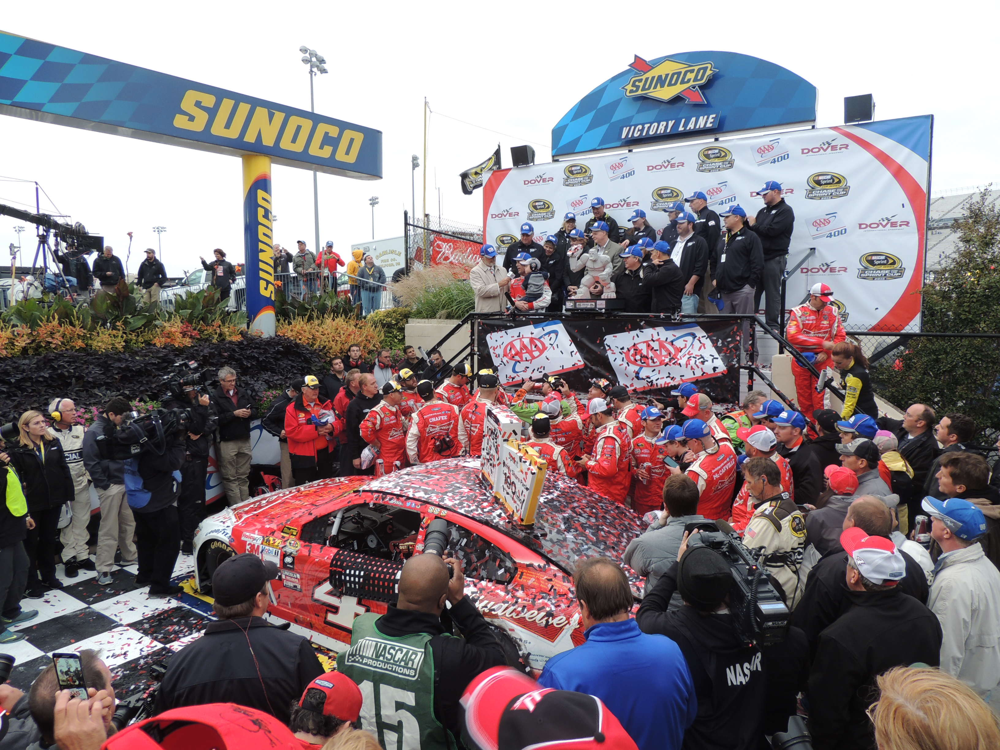 Kevin Harvick in Victory Lane after winning the AAA 400 at Dover International Speedway in 2015